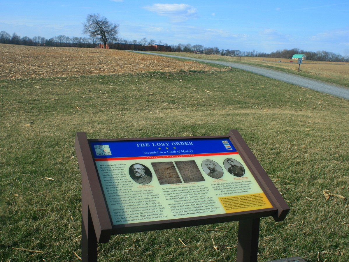 The Best Farm field, where Lost Order was lost, diring the American Civil War. Located near Monocacy National Battlefield, Frederick County, Maryland.